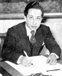 King Faisal II